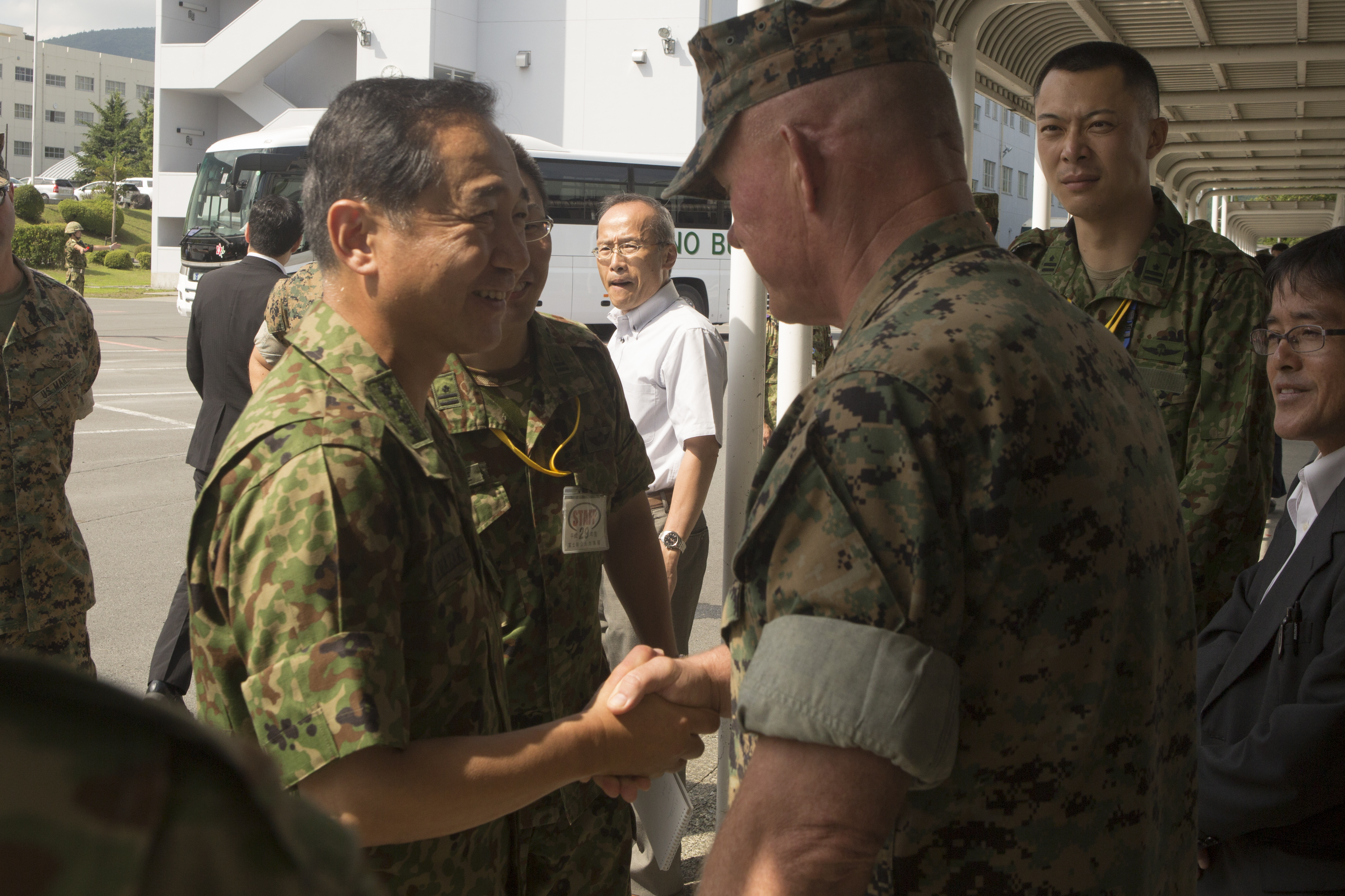 CATC CAMP FUJI, Japan— Lt. Gen. Lawrence D. Nicholson, right, and Chief of Staff Koji Yamazaki shake hands Aug. 27 at the Japan Ground Self-Defense Force Fuji school in Oyama-town, Japan. The Marine Corps leadership expressed their support of the JGSDF through their attendance and opening their artillery range to the JGSDF. The firepower event helps viewers understand combat capabilities in modern warfare and demonstrate the will and ability to provide defense. Yamazaki is the chief of staff of the JGSDF. Nicholson is the commanding general of III Marine Expeditionary Force.